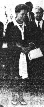 Pepca Kardelj (1914-1990), Slovene partisan and wife of Edvard Kardelj.